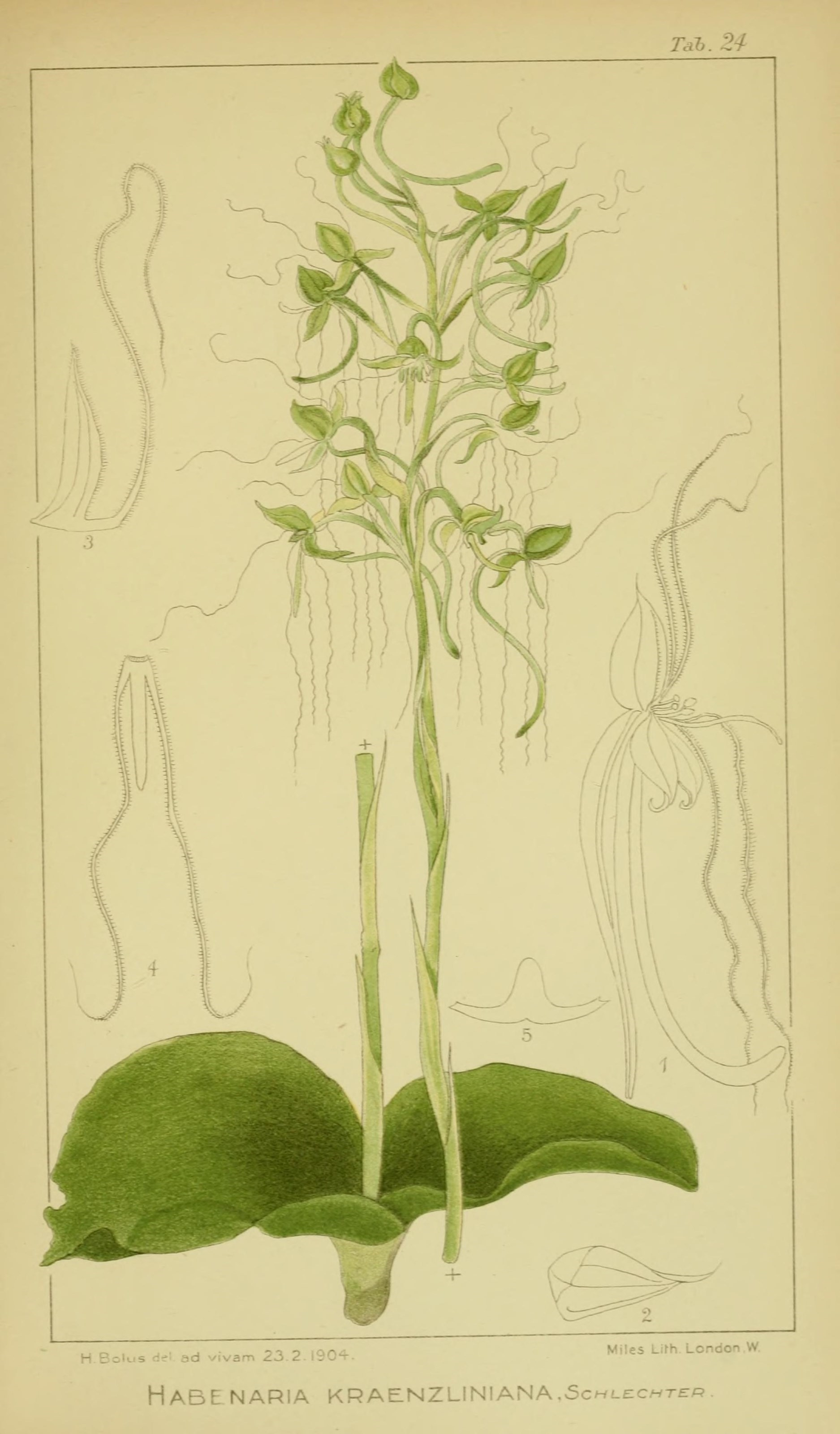 T^h. 24 H Bokis de: ad vivam 23 2. i90' Miles Lith London W HABE NARIA KRAENZLINIANA. 5c^^L£C«T^«